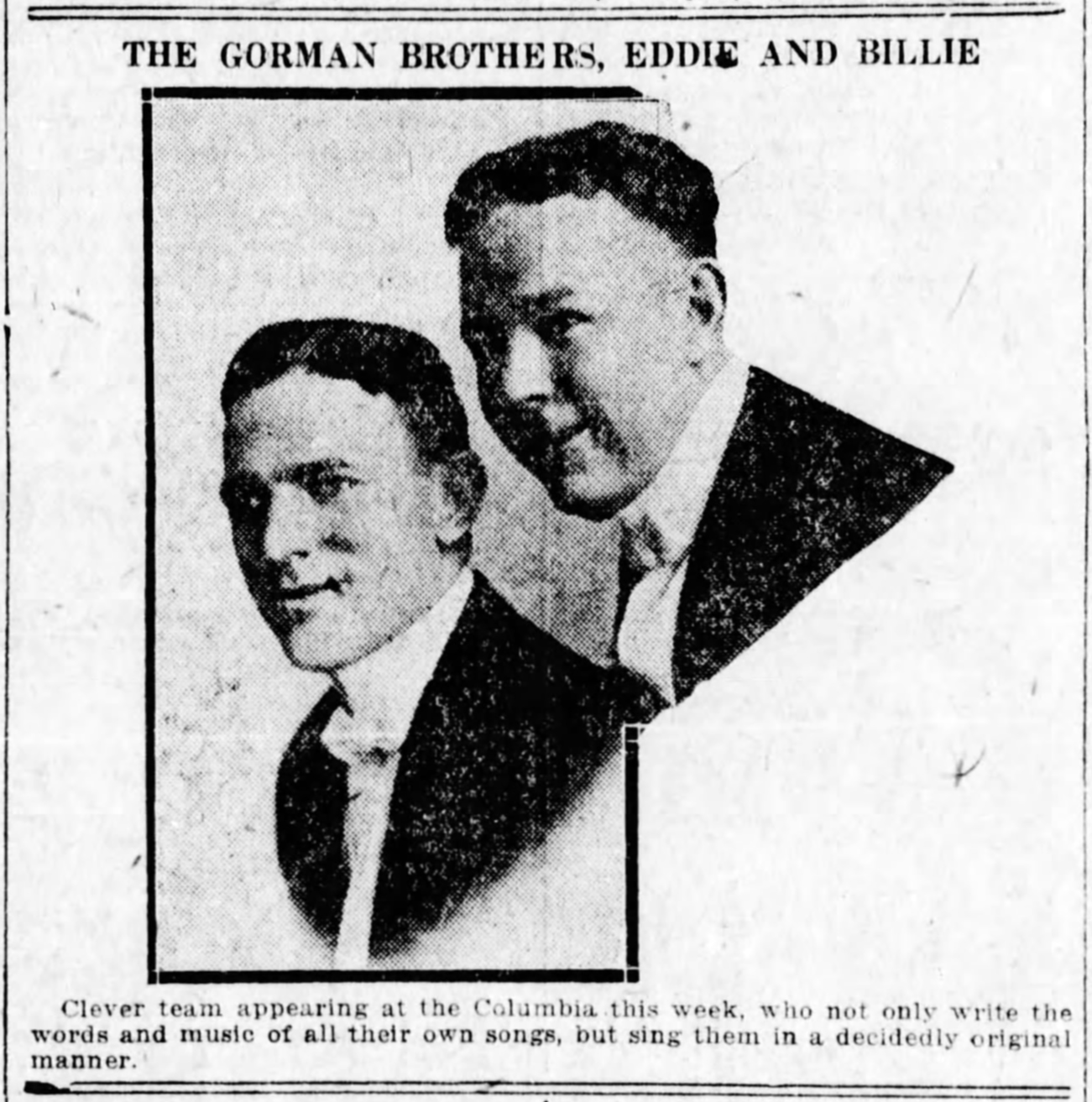 Gormans 1916 Vancouver